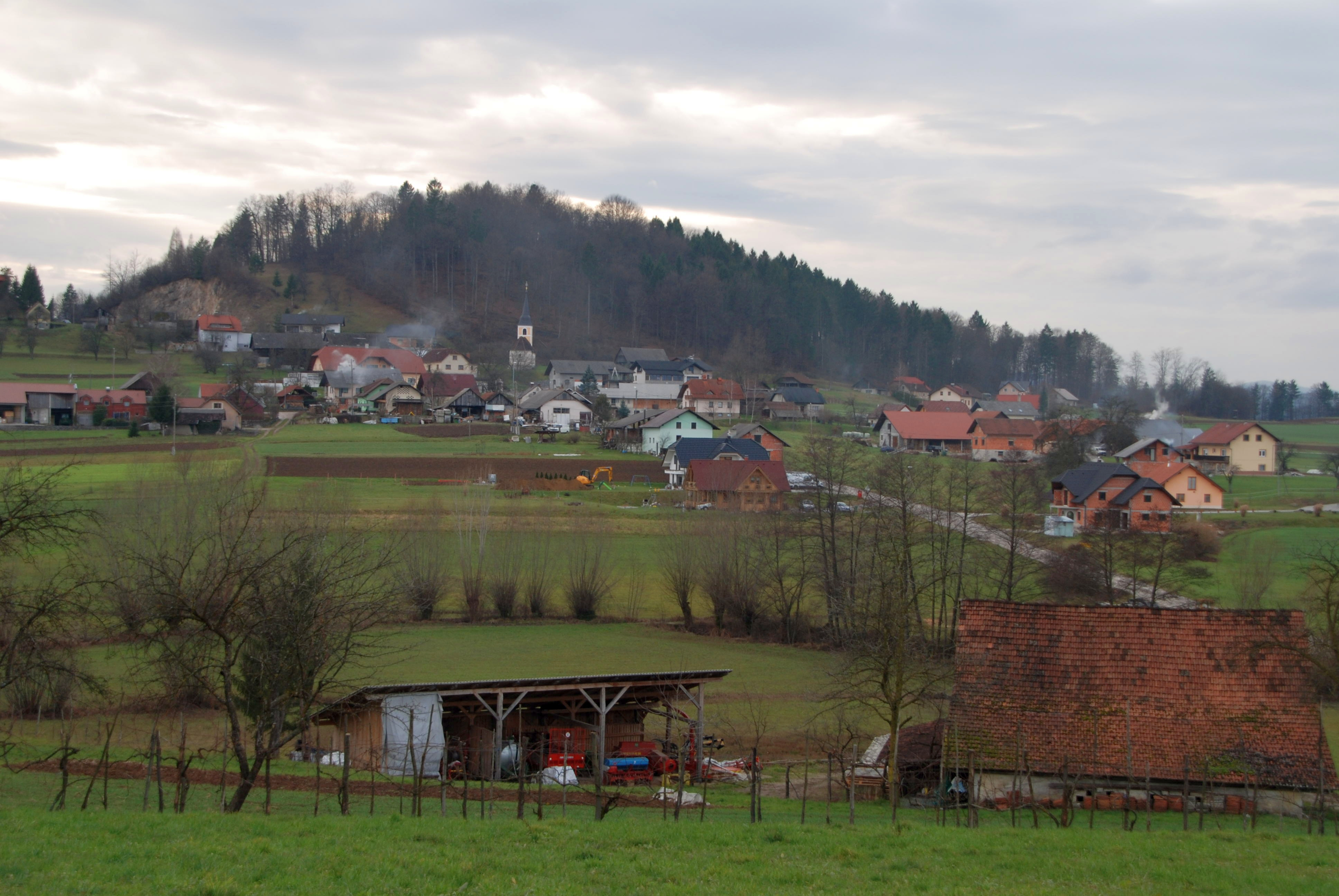 Slepšek, a village in the Municipality of Mokronog–Trebelno, southeastern Slovenia.